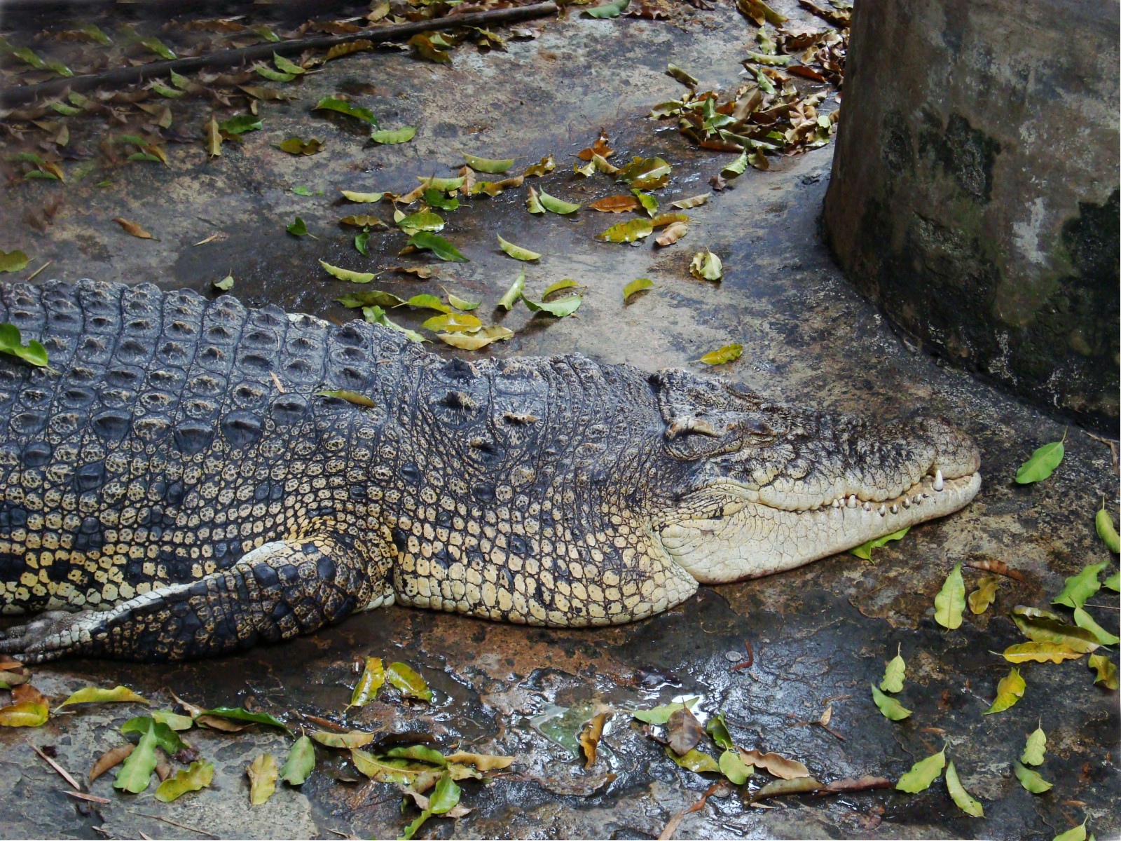 Crocodile in a pond in Wat Chakrawat, Samphanthawong District, Bangkok, Thailand.